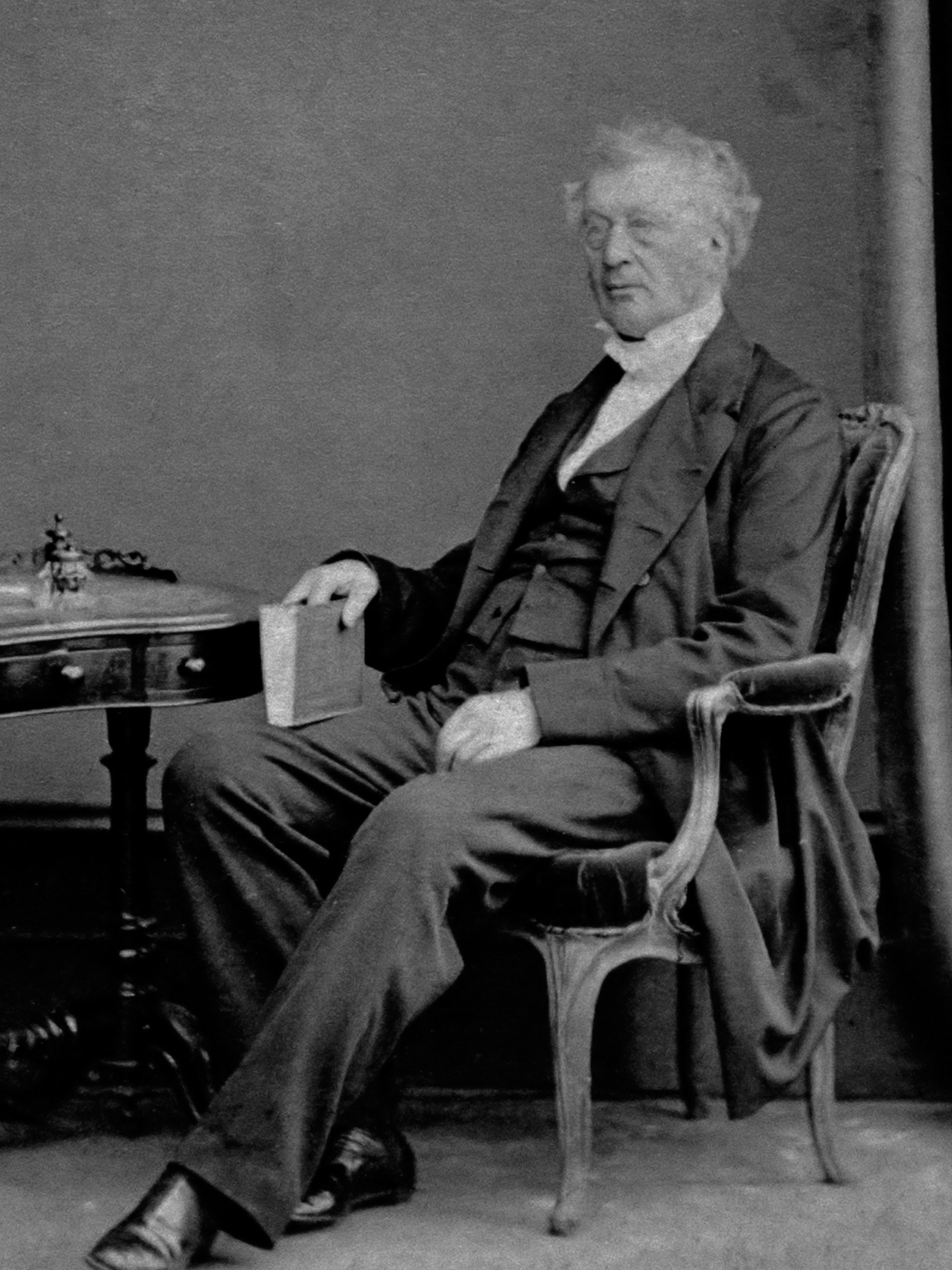 James Edward Austen-Leigh c.1860s from a family album